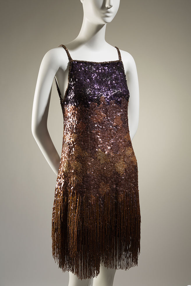 Silk organza, sequins, beads Fall 1969, France Gift of Lauren Bacall, 74.107.8 Lauren Bacall: The Look Photograph by Eileen Costa The Museum at FIT